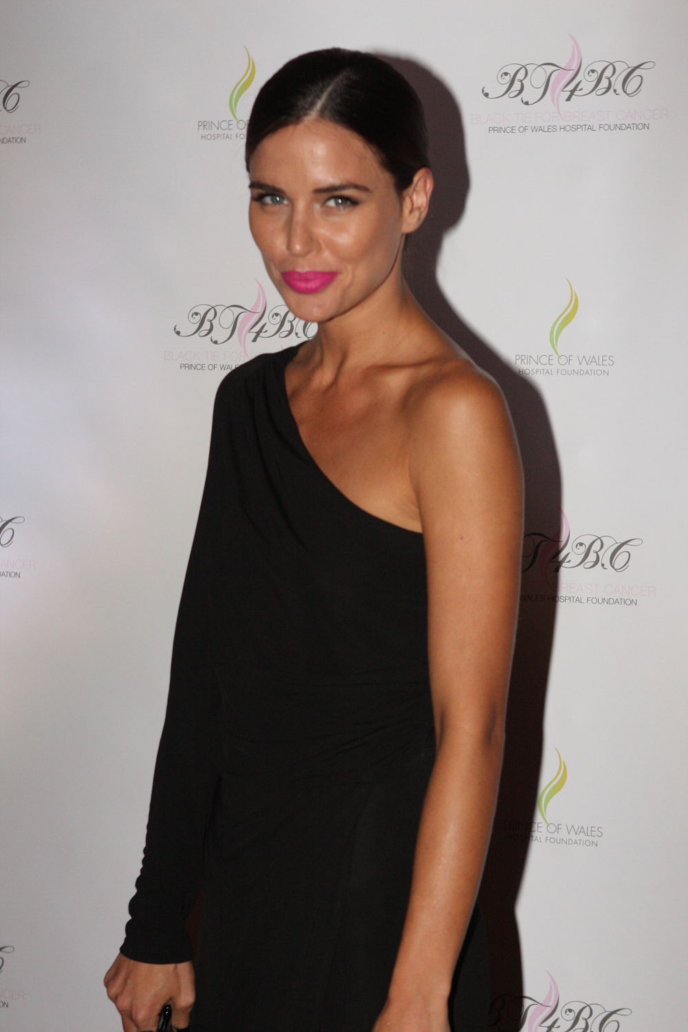 Australian actress Jodi Gordon at the Black Tie For Breast Cancer Gala Ball, Sydney, Australia